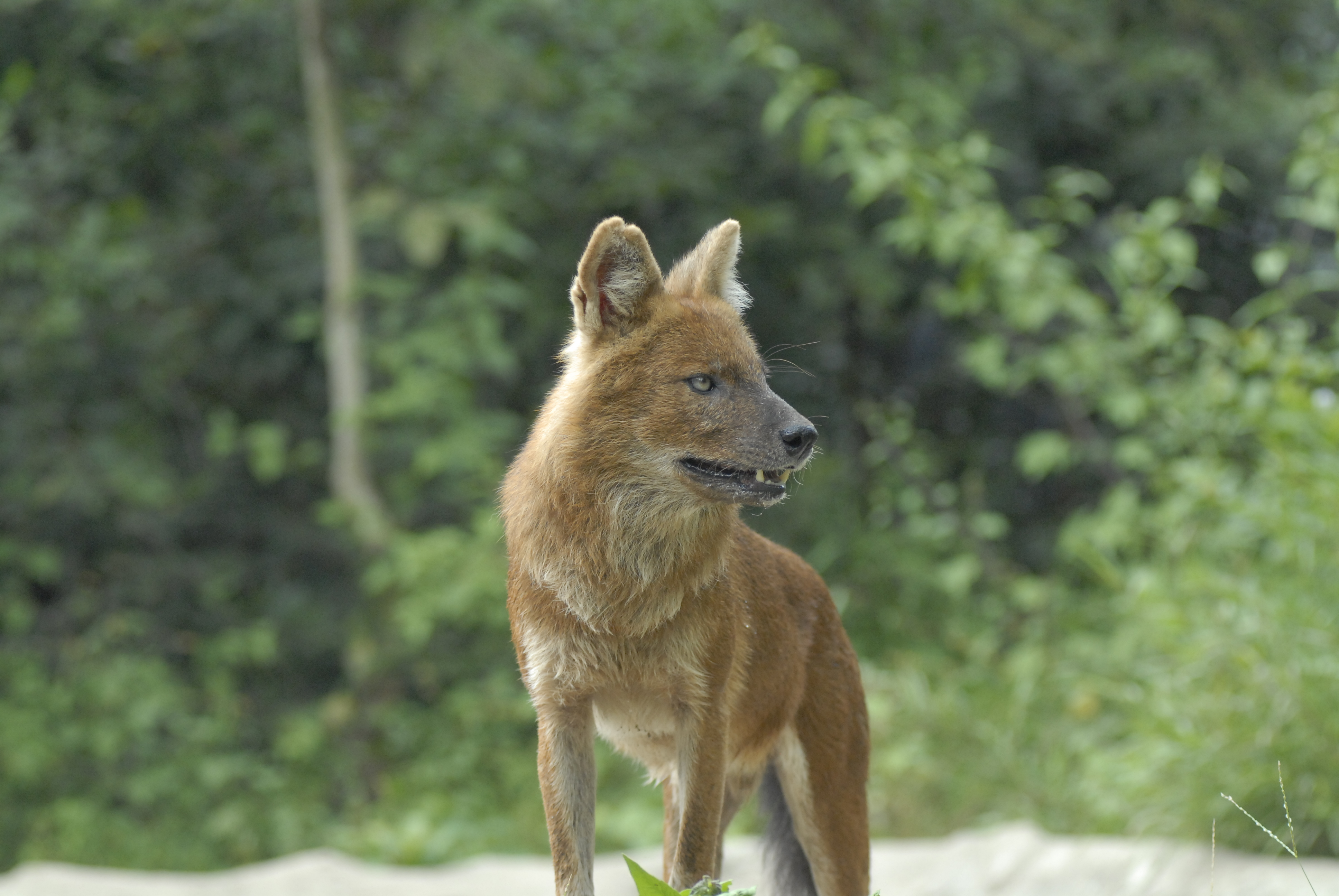 Dhole hanging out at the Phnom Tamao Wildlife Rescue Center